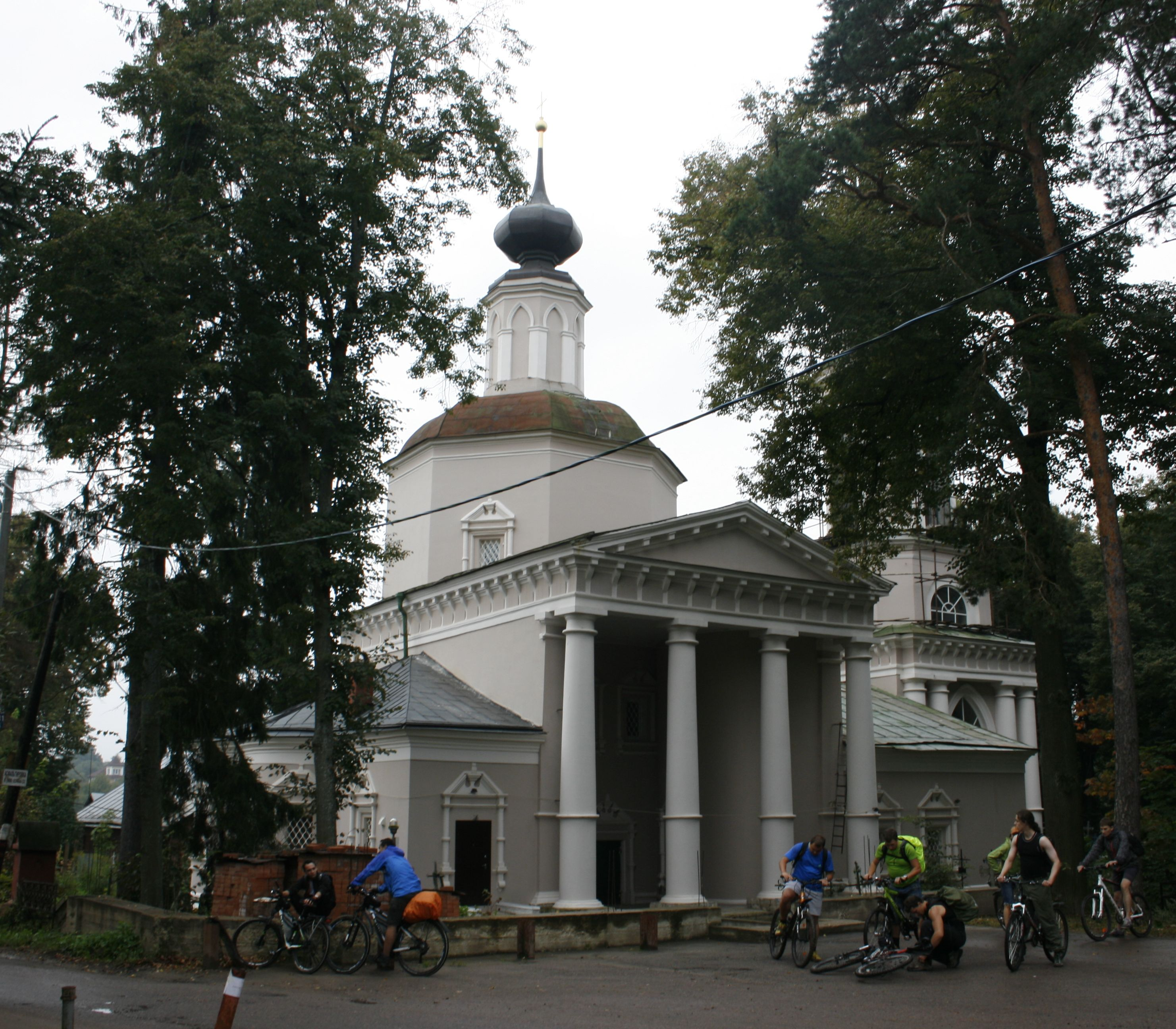 Church of St. John the Baptist, Afineevo, Narofominsk District of Moscow Oblast